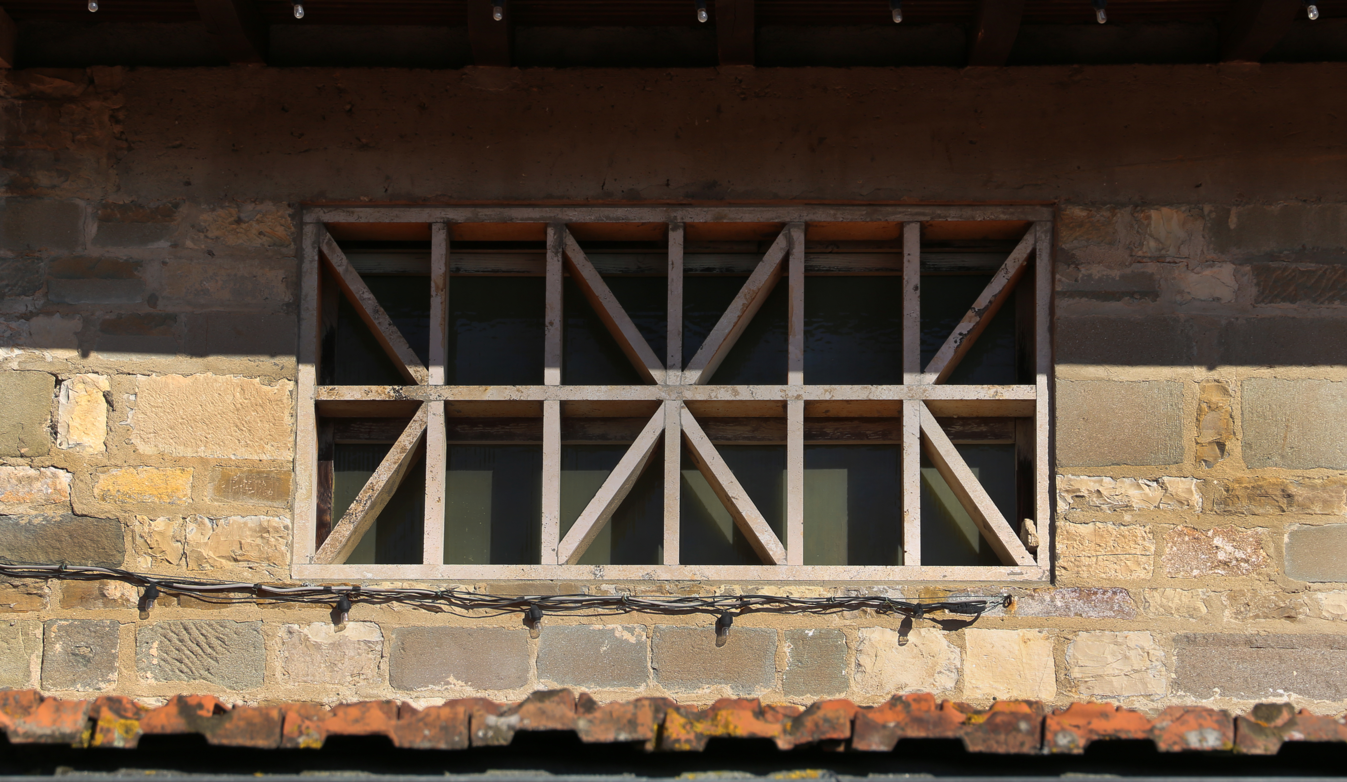 Santi Pietro e Girolamo (Pistoia)